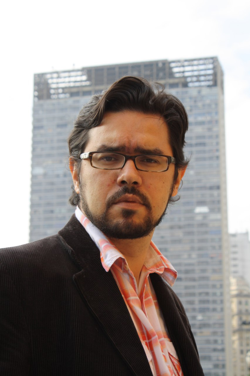 Paulo Ferraz